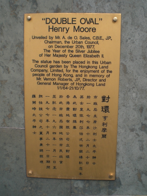 Connaught Place (康樂廣場) is a place near Jardine House, formerly Connaught Centre, in the Central, Hong Kong. Author= User:VictoriaOP